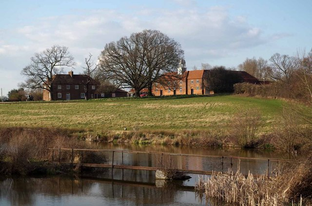 View From the Bridge